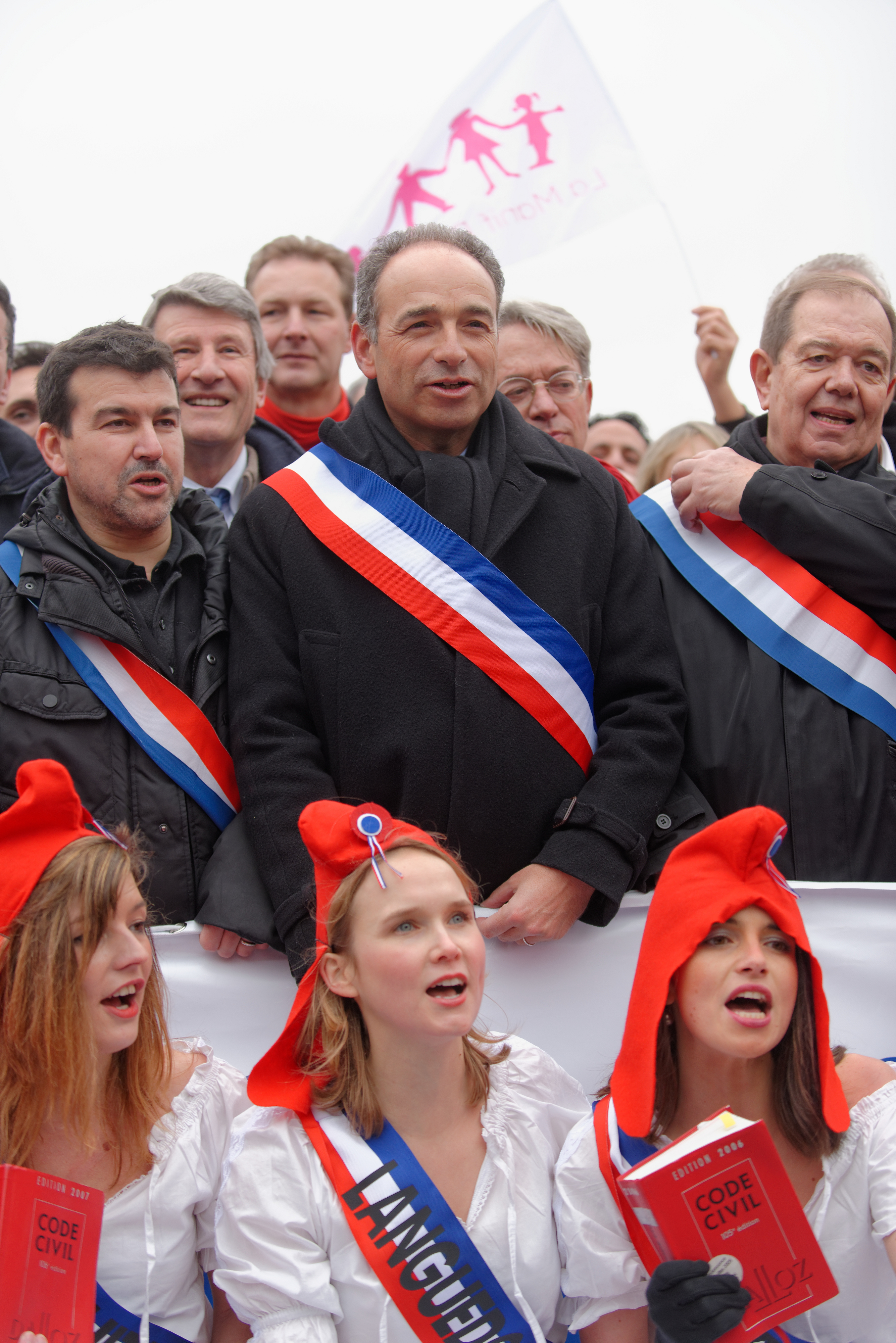 Centre and right: Jean-François Copé and Patrick Ollier. Demonstration against same-sex marriage in Paris on 13 January 2013 (“Manif pour tous”): the procession coming from Place d'Italie.